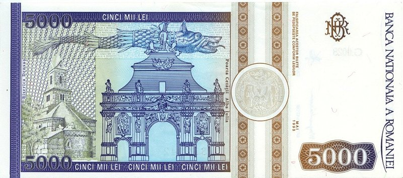 5000 Romanian leu from 1993 - reverse